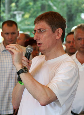 Ferenc Gyurcsány, Prime Minister of Hungary at a music festival in Q&A.